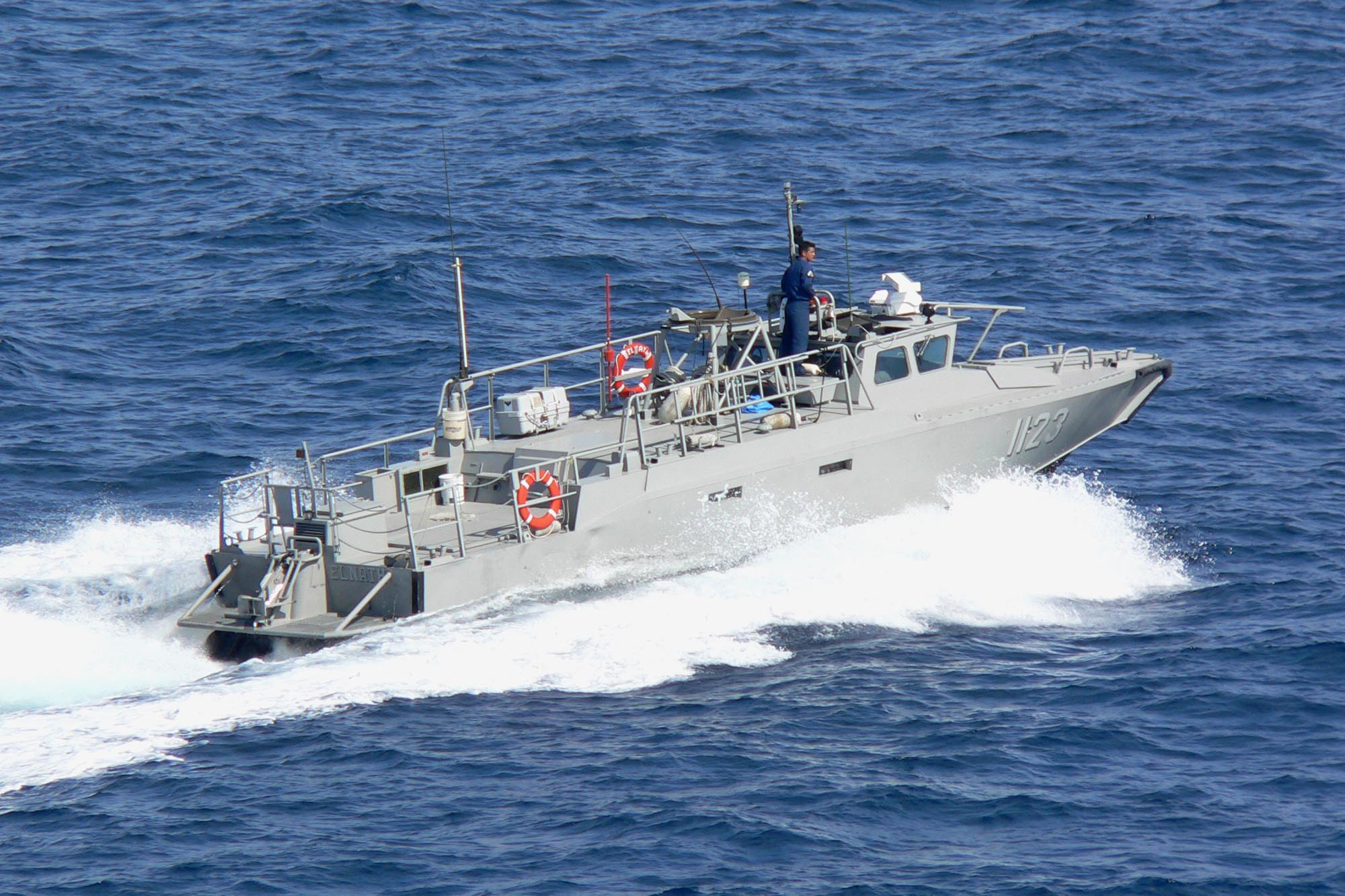 Photo of Mexican Navy patrol boat ARM Armelnath off Cabo San Lucas